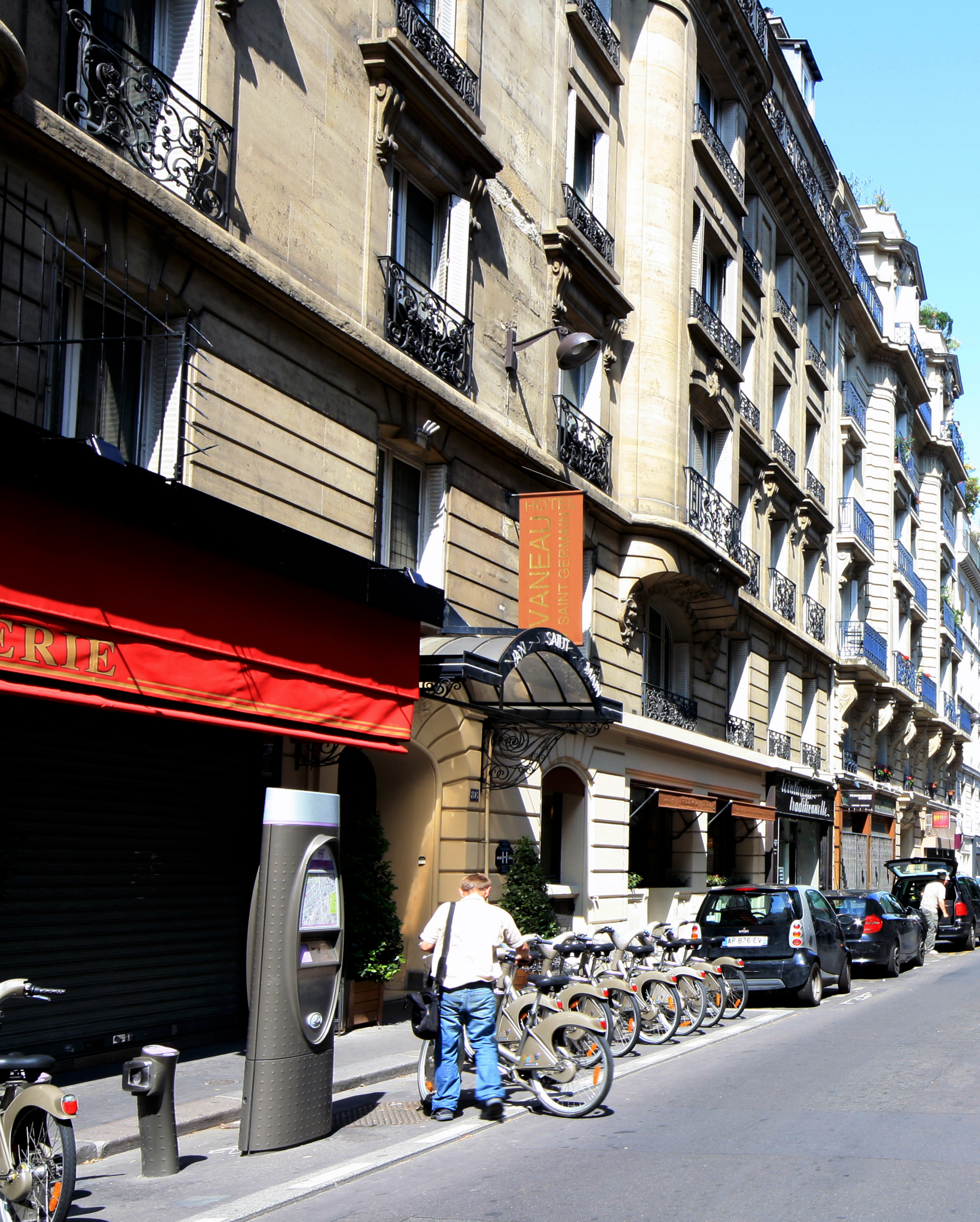 Rue Vaneau, Paris